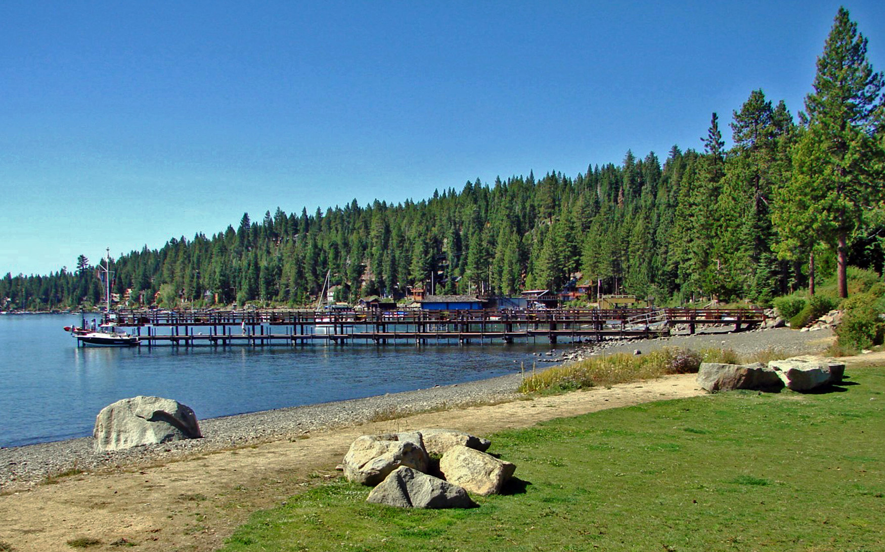 (1 in a multiple picture album) Carmelion Bay is known as a location where one can see lots of Chris Craft wooden boats. But even without the boats, it is a lovely place on the north end of the lake.